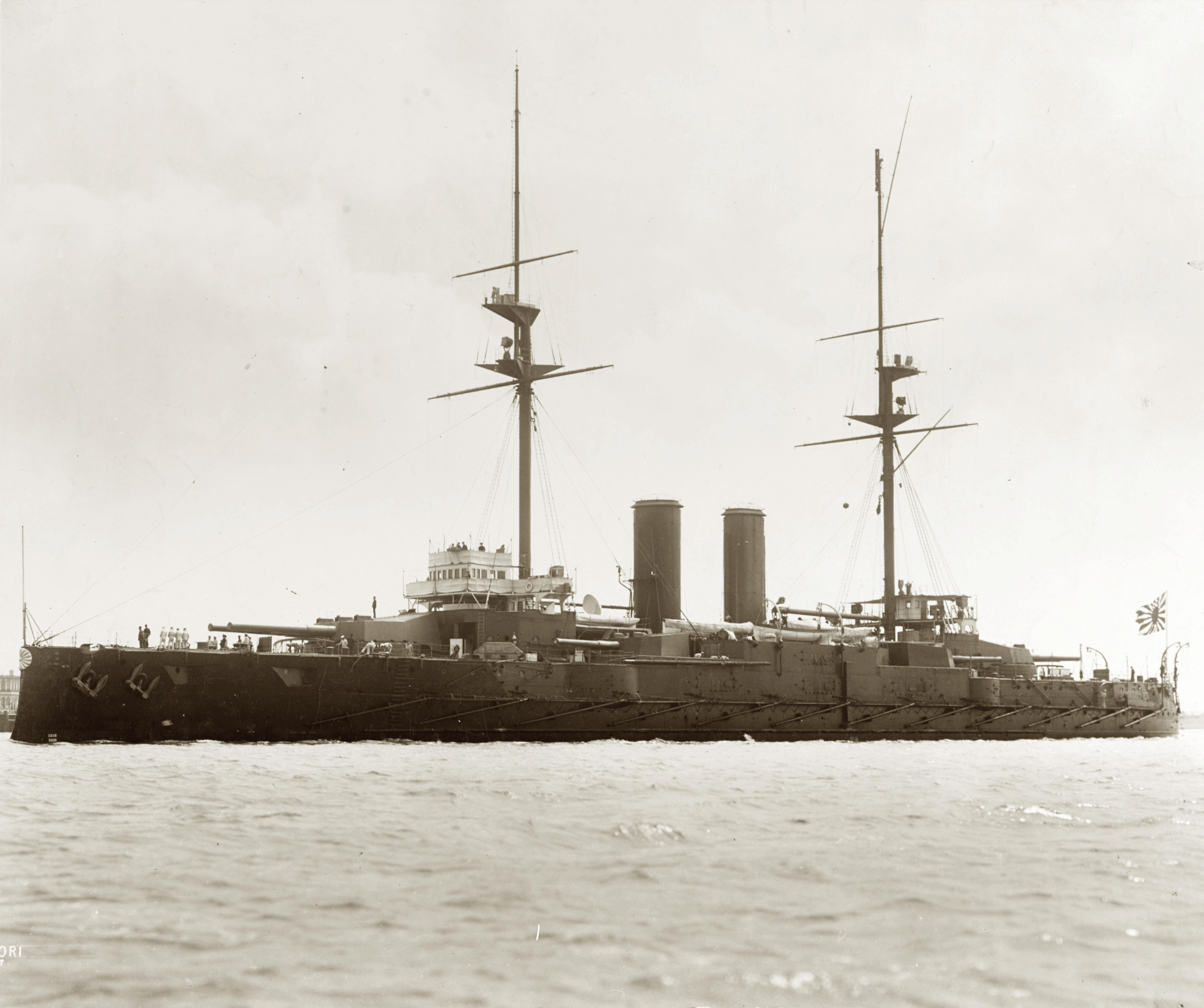 Imperial Japanese battleship Katori.